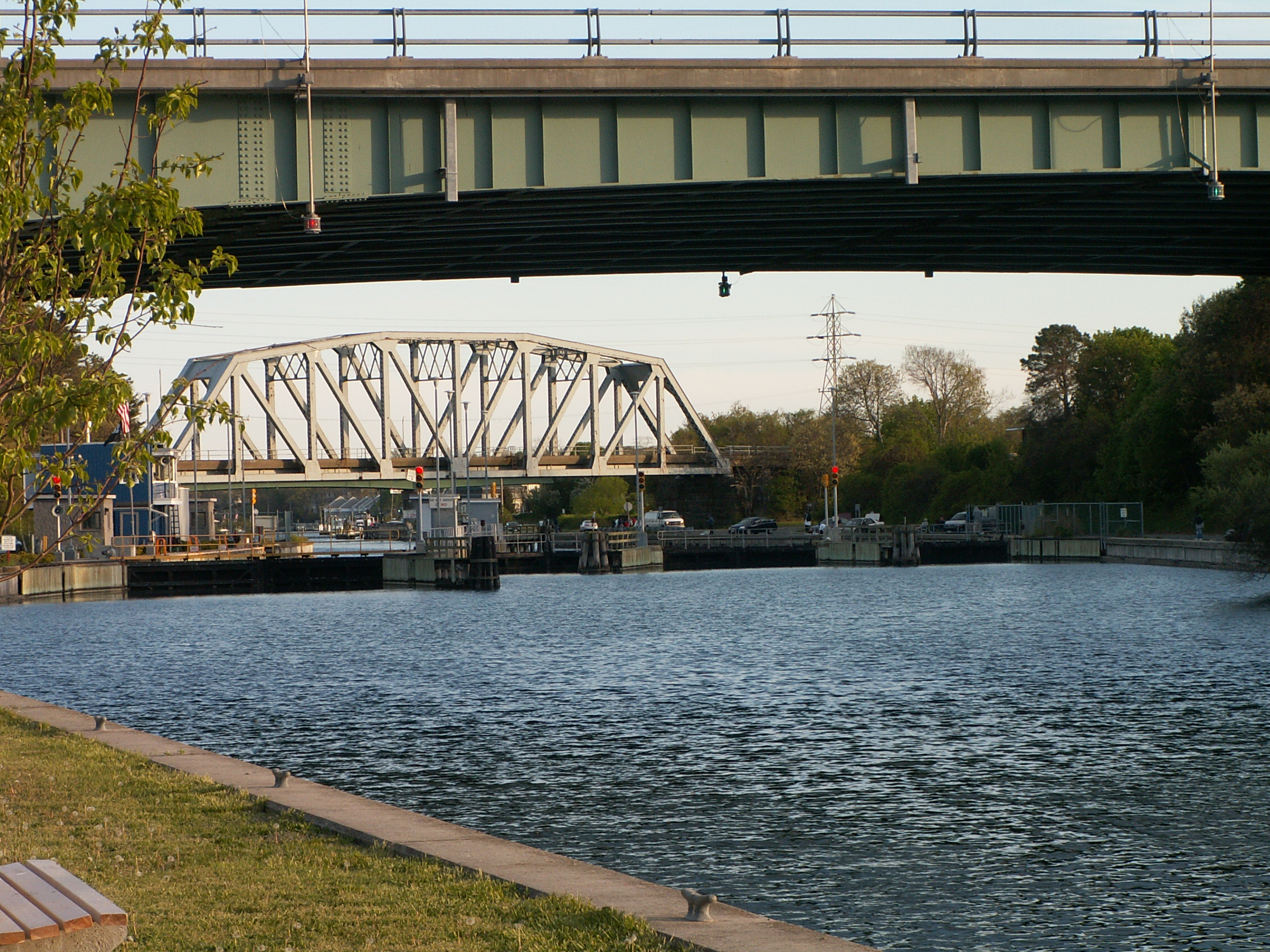 Shinnecock Canal locks looking south from the Peconic to the Shinnecock Bay. The bridge in the foreground is the Sunrise Highway. The second bridge is the Long Island Railroad.